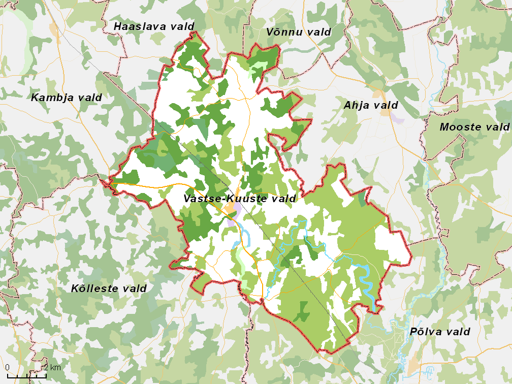 Map of municipality in Estonia